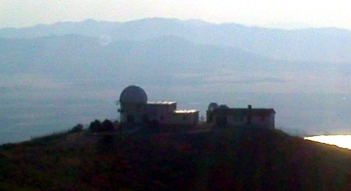 West Mountain Observatory seen in 2006.(View southwest over Goshen Valley; northern region of East Tintic Mountains.)